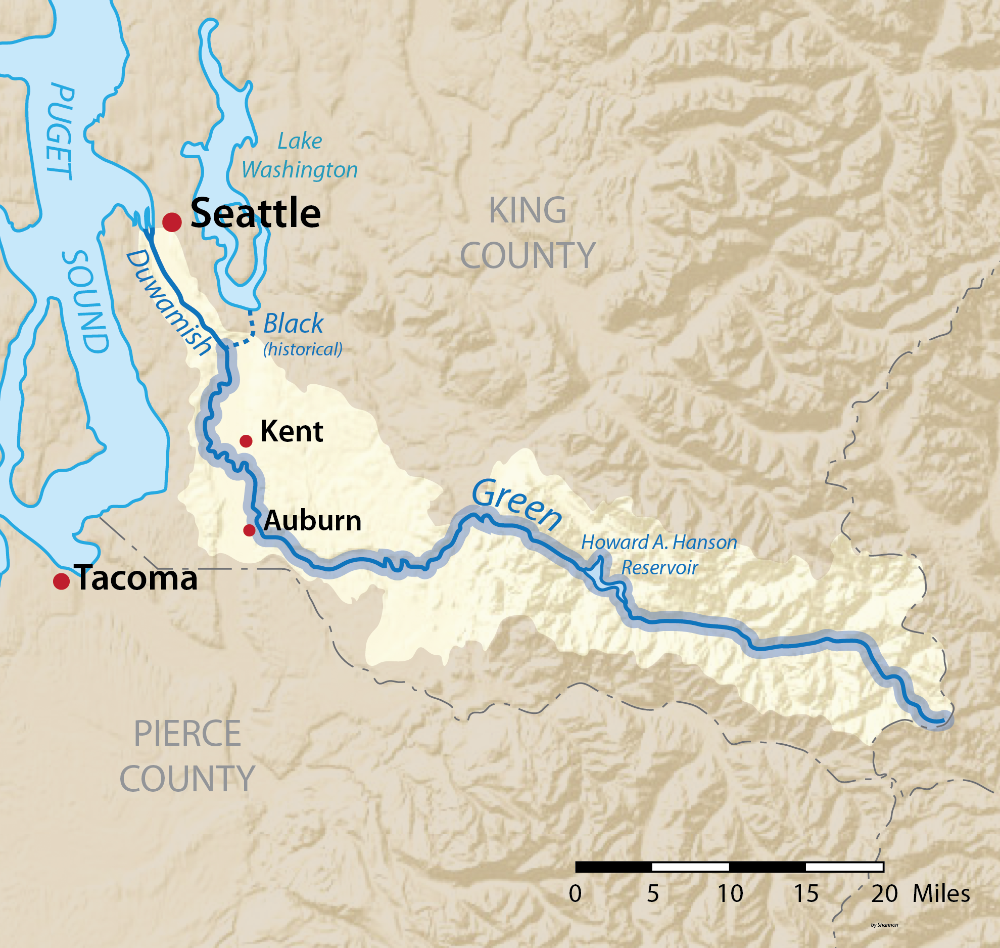 Map of the Duwamish/Green River in Washington, USA with the Green River highlighted. Made using USGS National Map data.